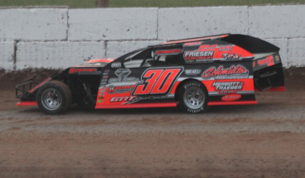 2016 IMCA Modified national champion Jordan Grabouski at 141 Speedway's Clash at the Creek